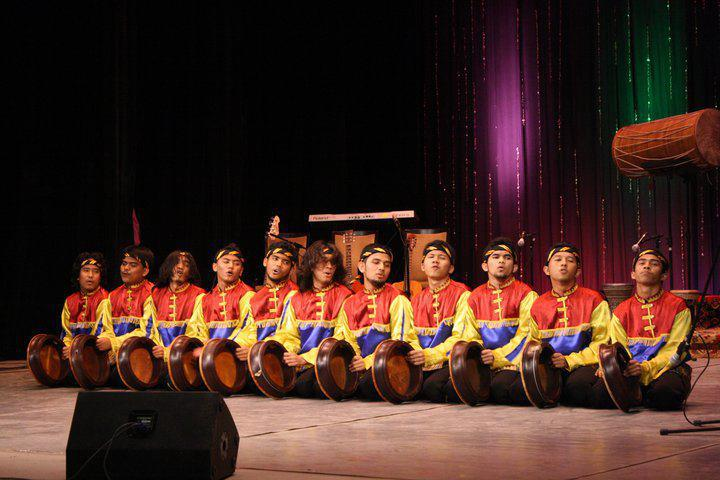 Rapa'i Geleng Dance from Aceh